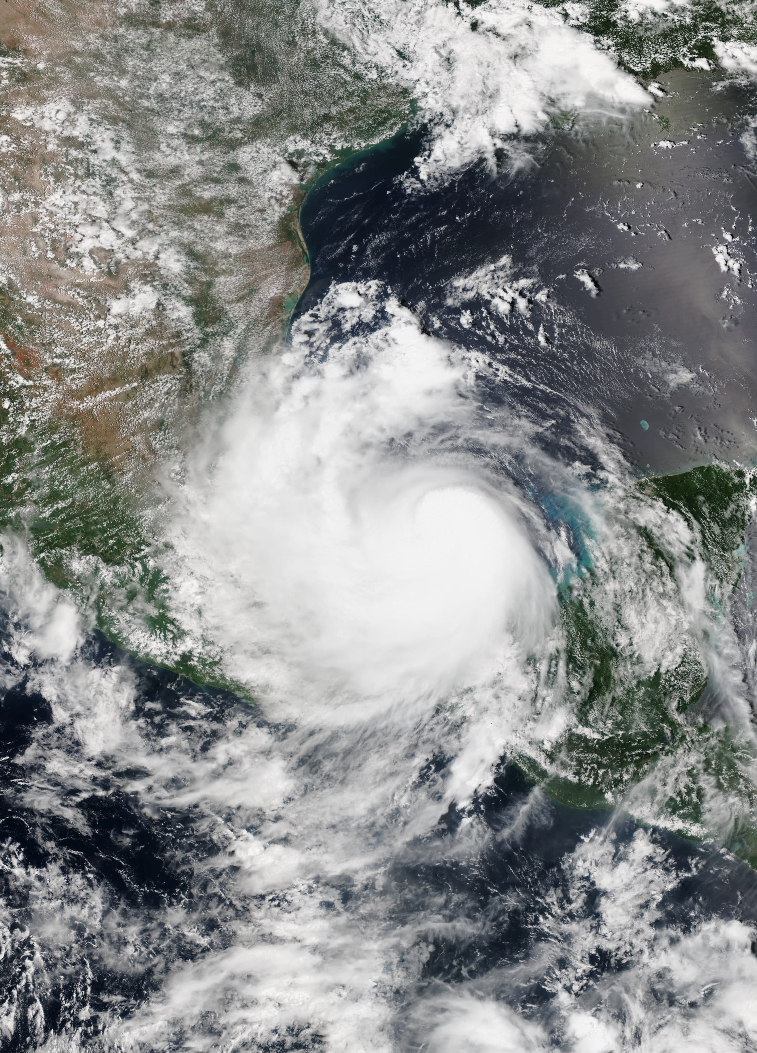 Hurricane Franklin became the Atlantic Ocean basin’s first hurricane of 2017, making landfall over Mexico early on August 10, 2017, as a category 1 storm and then weakening. The Visible Infrared Imaging Radiometer Suite (VIIRS) on the Suomi NPP satellite acquired this nighttime view of the storm in the early hours of August 10. The image is a composite of two orbital passes, the latter of the two passing over Franklin at roughly 4:02 a.m. Central Daylight Time (09:02 Universal Time). The image was captured by the VIIRS “day-night band,” which detects light in a range of wavelengths from green to near-infrared and uses filtering techniques to observe signals such as city lights, auroras, wildfires, and reflected moonlight. In this case, the clouds were lit by moonlight. At the time, the storm had weakened from a category 1 hurricane to a tropical storm. Earlier, VIIRS on Suomi NPP acquired a natural-color image of the storm (second image). When this view was captured at 1:54 p.m. Central Daylight Time (18:54 Universal Time) on August 9, 2017, winds measured 65 knots (75 miles per hour), according to Unisys.